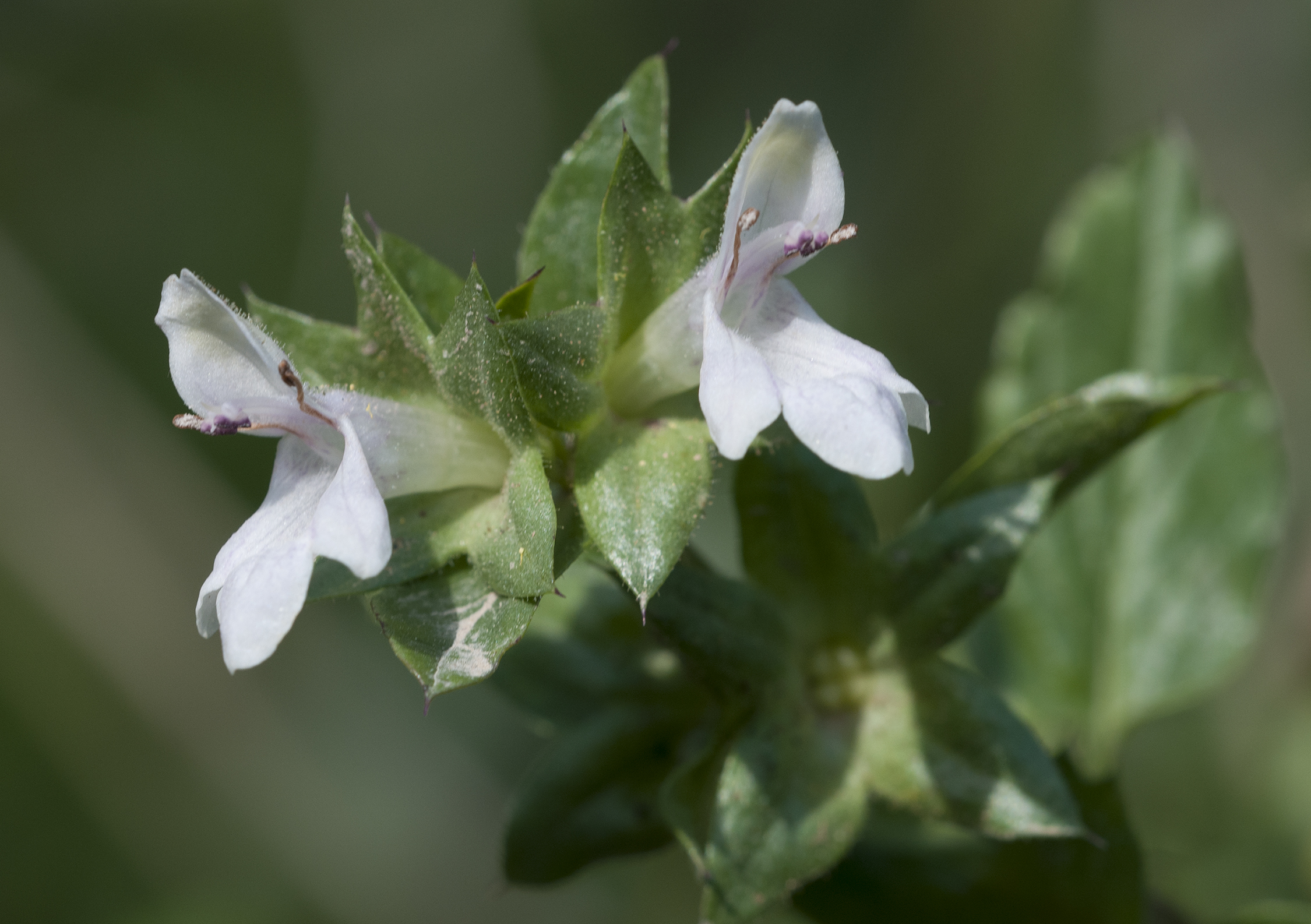 Flowers of White hedge-nettle (Prasium majus) at Dune Akyatan - Karataş - Adana, Turkey.